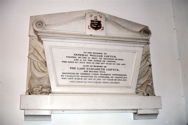 Photograph of a family memorial